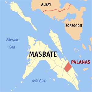 Map of Masbate showing the location of Palanas